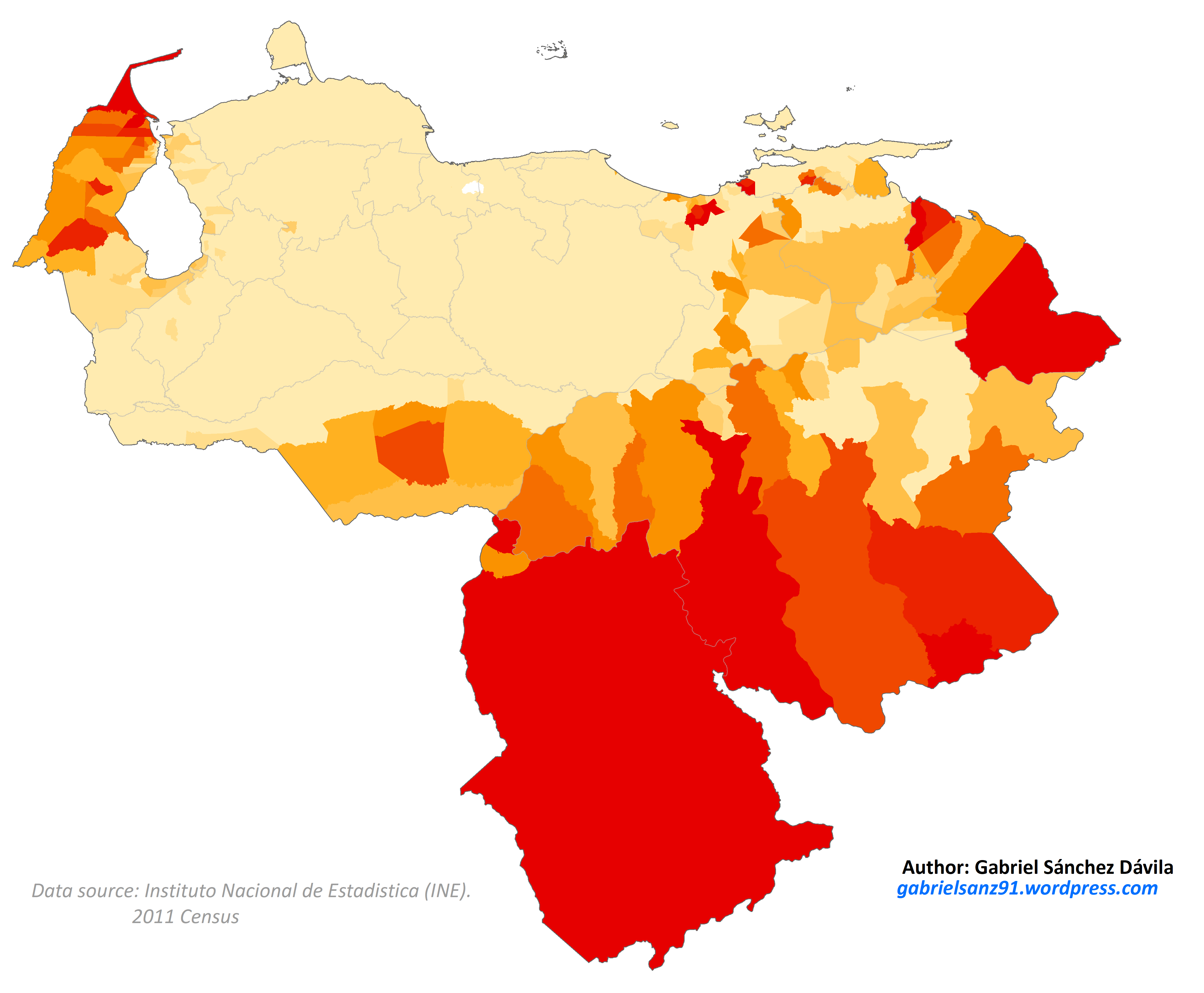 Map showing the proportion of the Venezuelan population described as "Amerindian" in the 2011 census, at electoral ward level. 60%